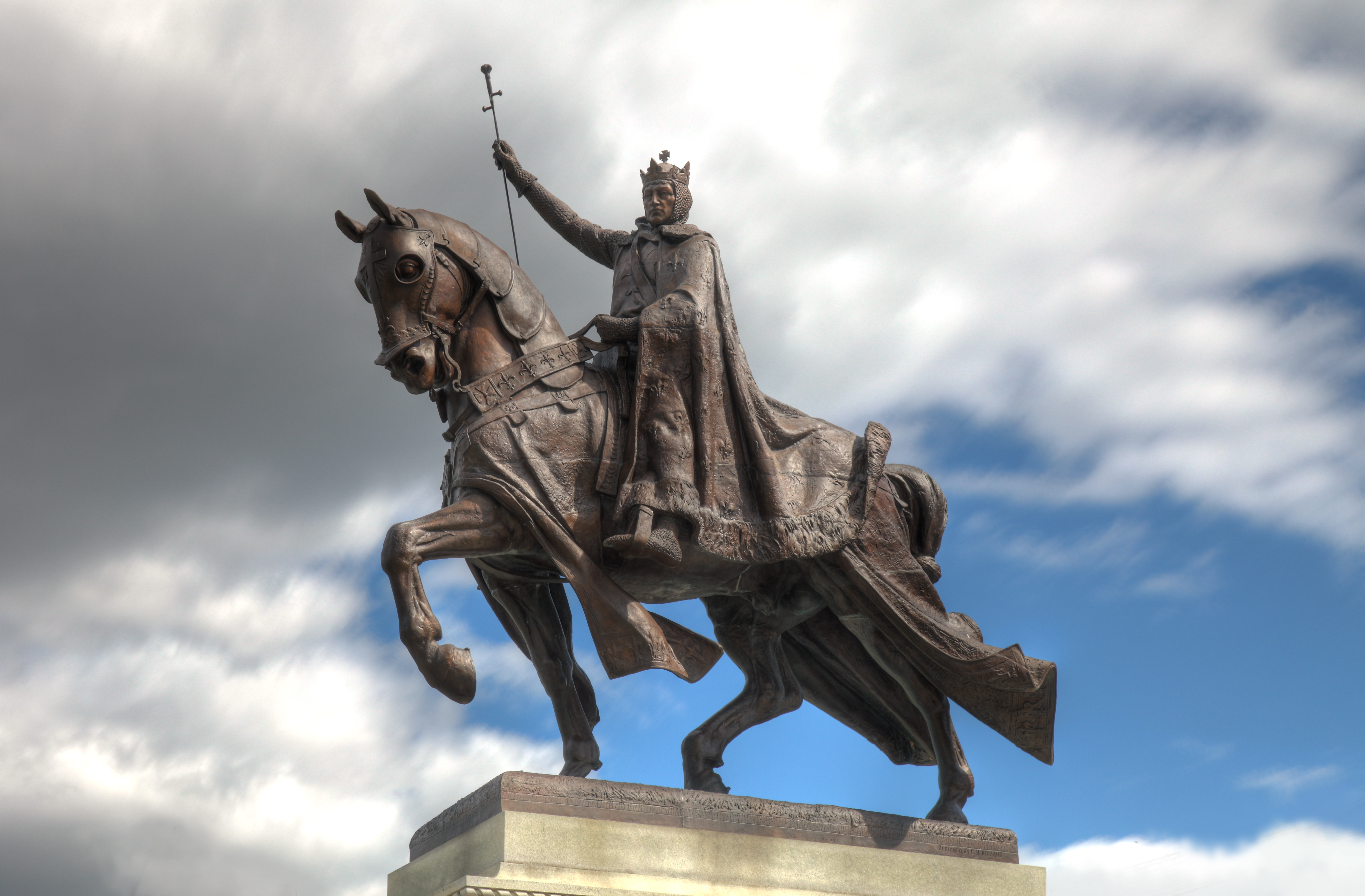 HDR photo of the Apotheosis of St. Louis.